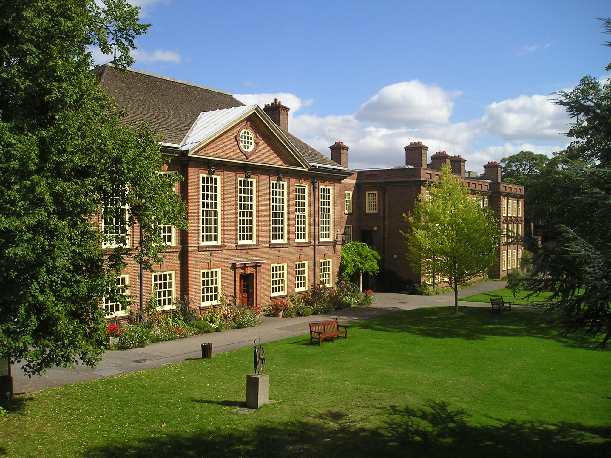 The Hall (left) and Maitland Building (right) of Somerville College, Oxford